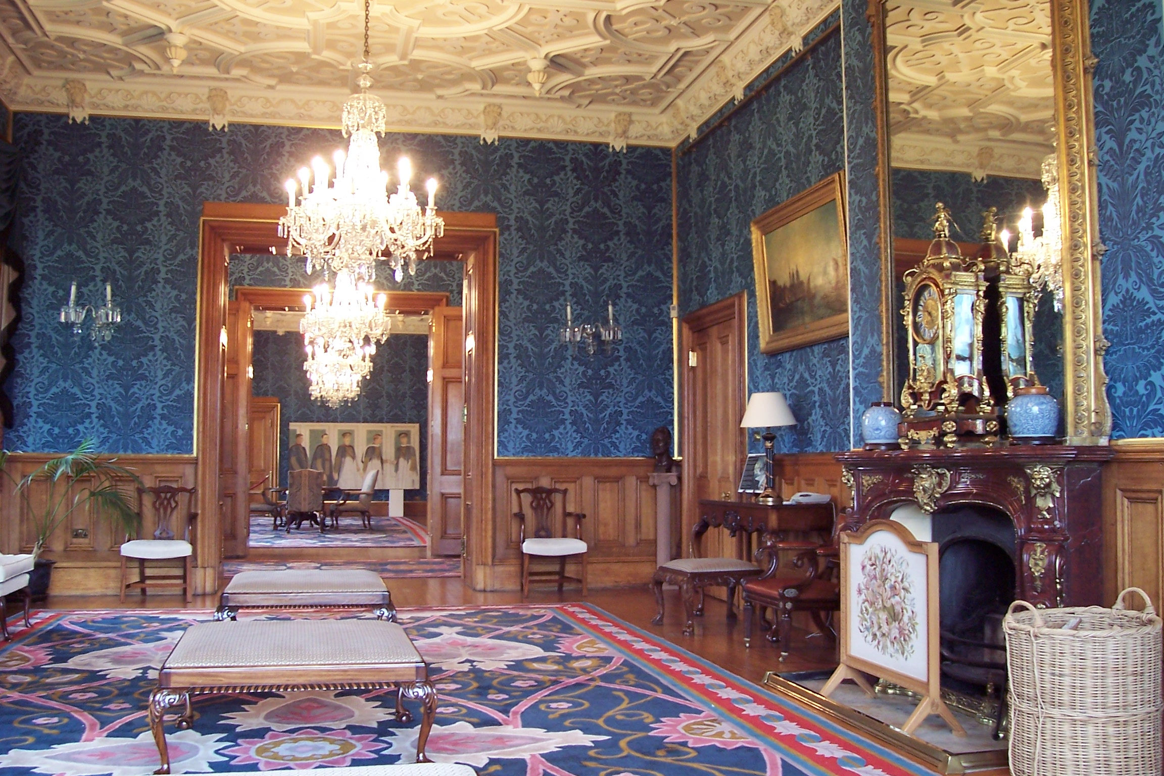 Taplow Court, Taplow, Buckinghamshire, UK - View from dining room into drawing room